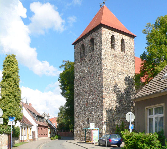 Church St. Laurentius in Möckern (Saxony-Anhalt)